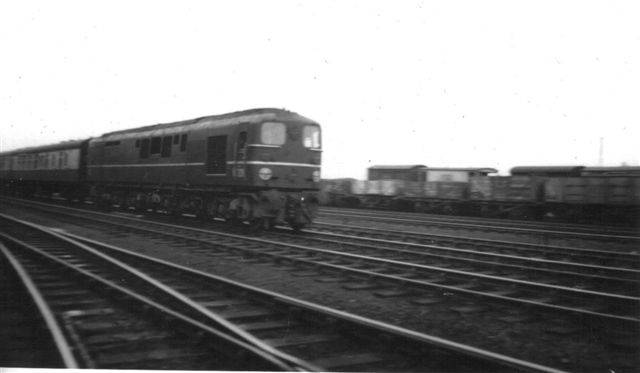 Up express approaching Bletchley headed by 1 Co-Co 1 6P/6F no.10203. A poor photo with nothing to indicate the setting, but included because it was a rare sighting of this machine (brand new in 1954). Only 3 of these were built, at Ashford Works, this being the third and most powerful. For the technical people- English Electric Co. 16-cyl. 2000 b.h.p. Weight 132 tons. Driving wheels 3'7", maximum tractice effort 50,000 lb. Transmission:electric. 6 nose-suspended, axle-hung d.c.motors of 260 h.p. (1 hr.rating).